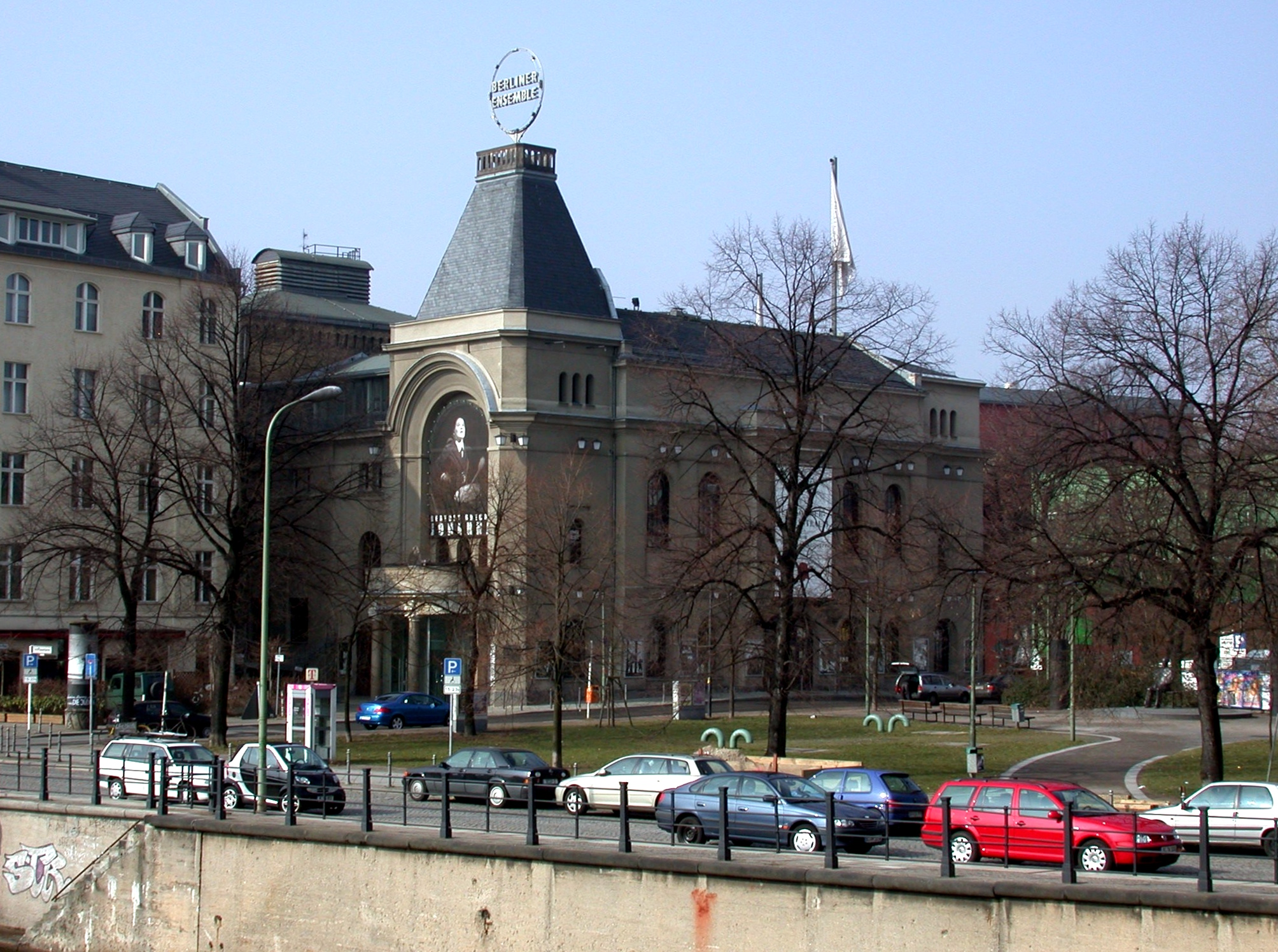 B.-Brecht Theater Berlin Schiffbauerdamm Photgraphed by Apodemus,own work, 2001, Germany